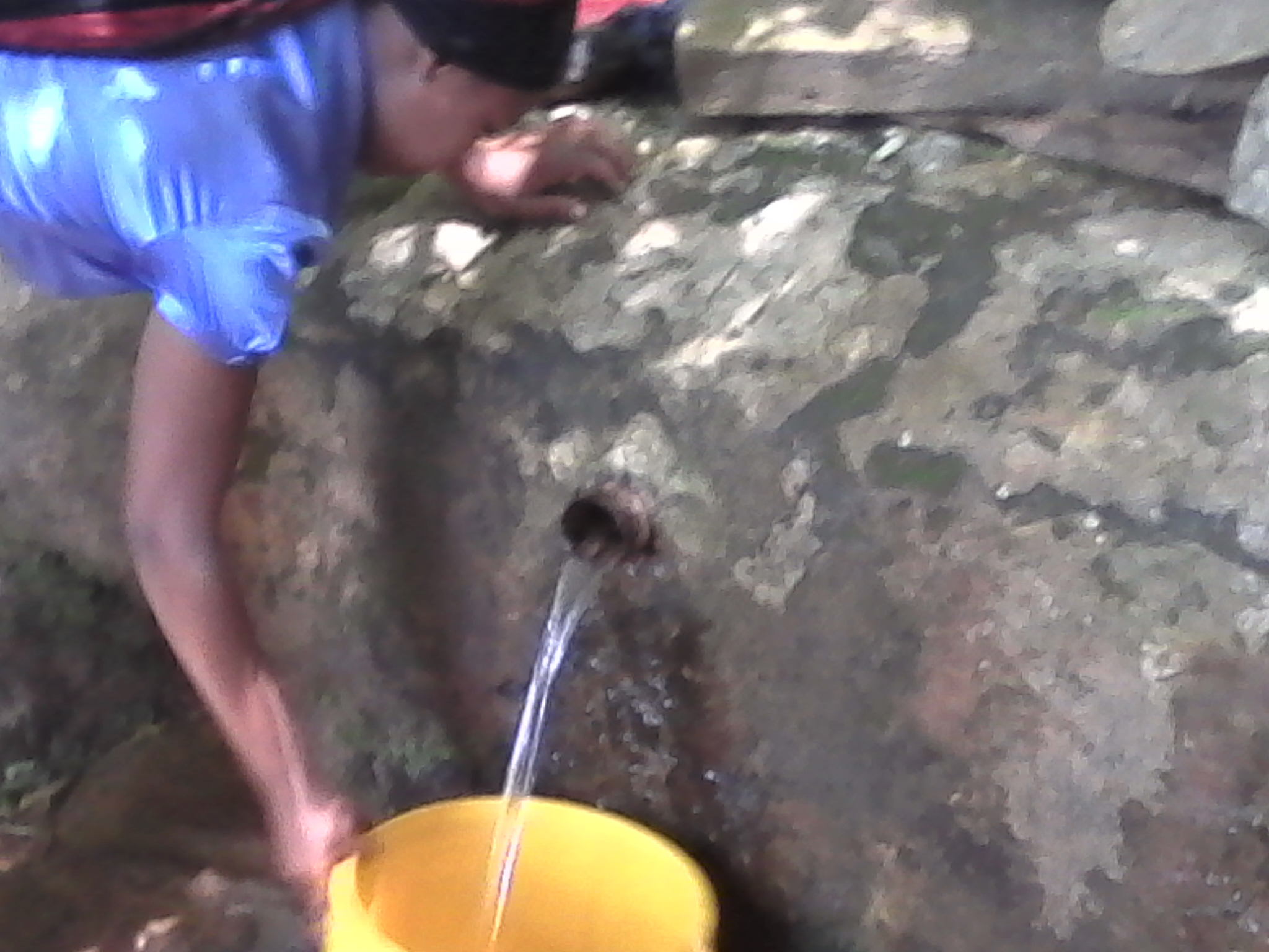 Channeled Natural Water System in Ugweno